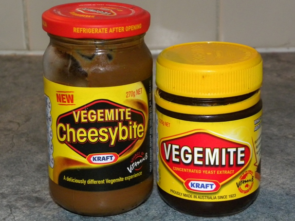 Vegemite and Cheesymite products from Australia